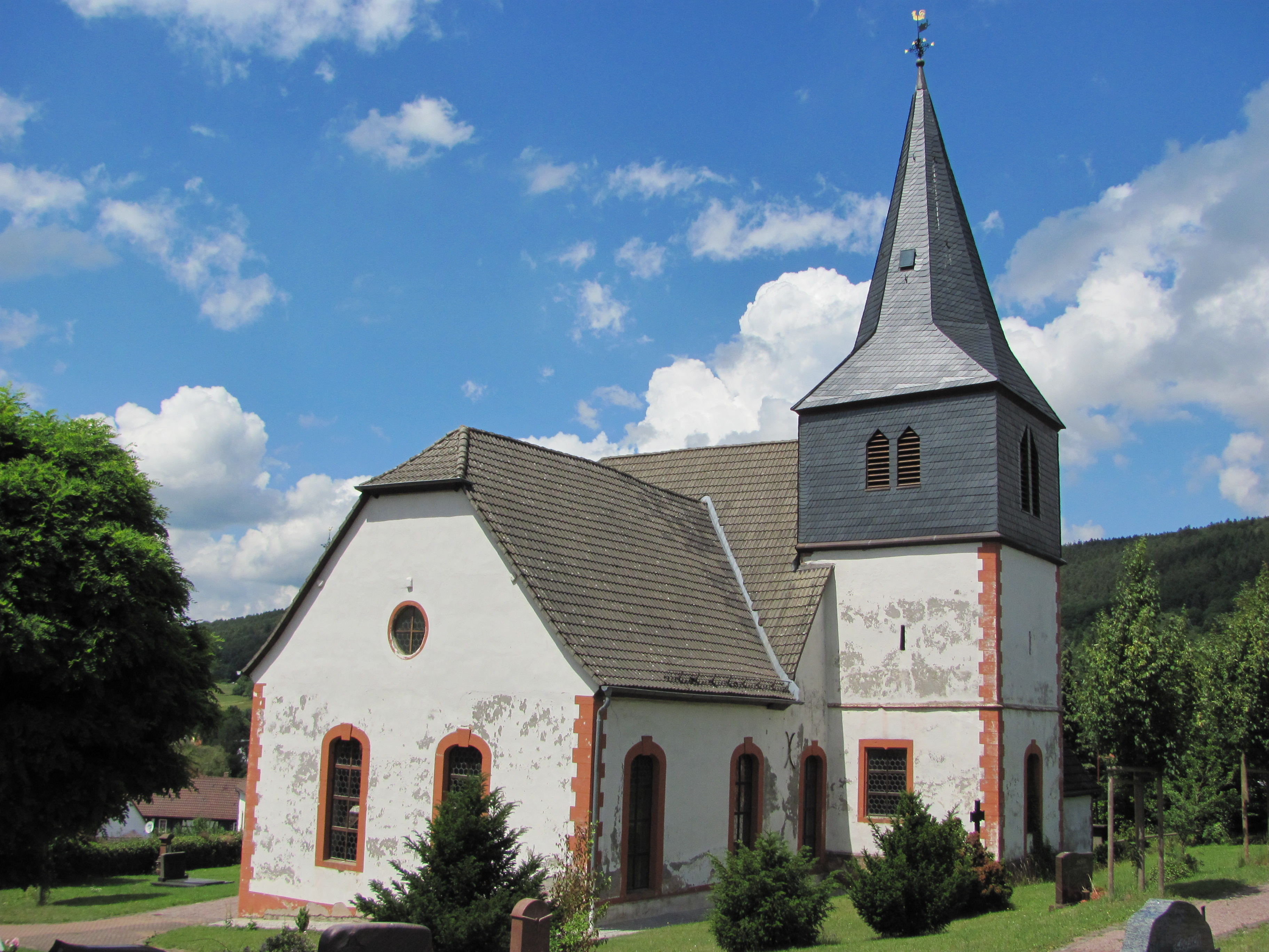 Church St. Laurent ("Upper Church"), Biebergemünd, Bieber